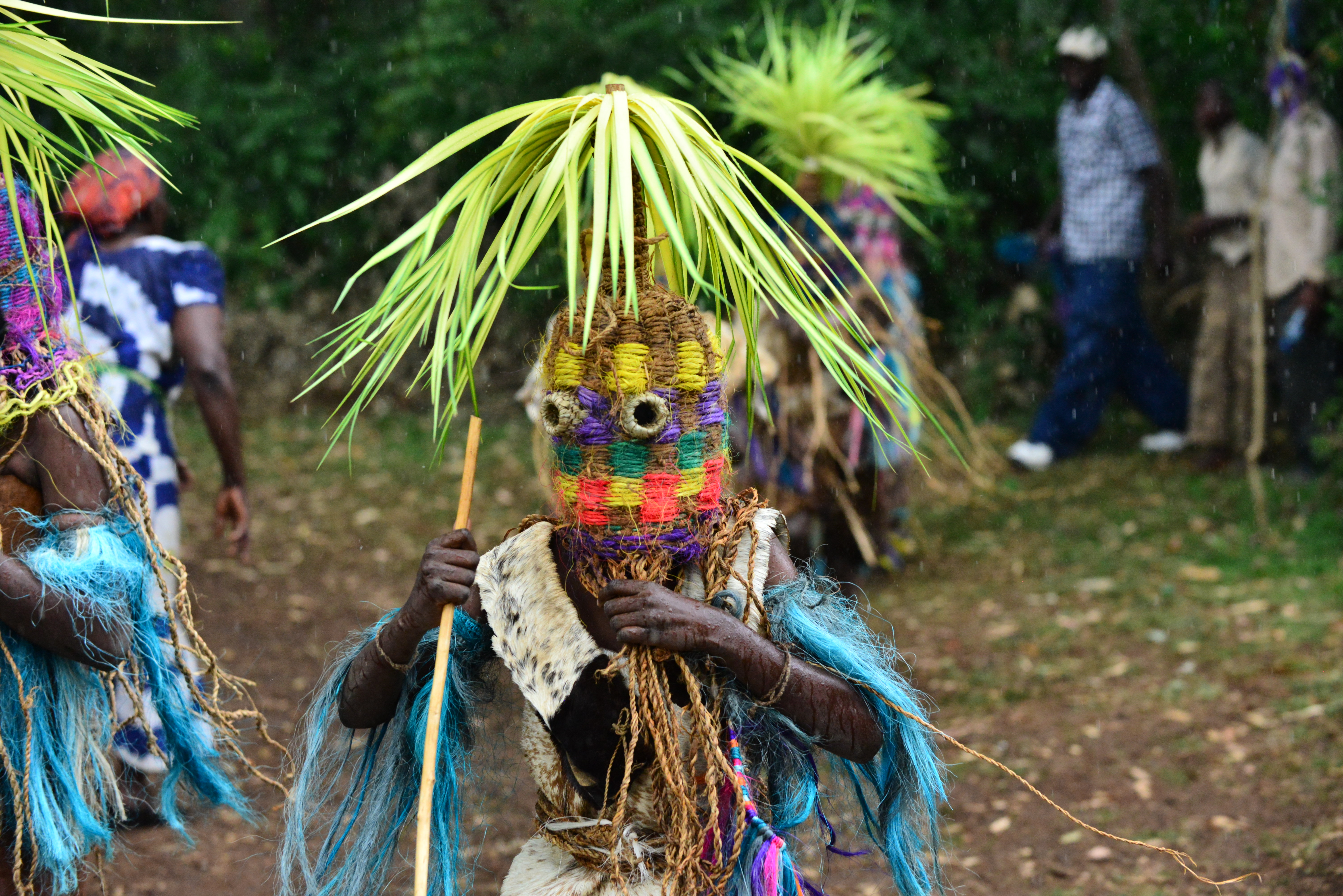 Boys from the Tiriki community of Western Kenya in traditional masks and animal hide ceremonial regalia after undergoing initiation into adulthood by circumcision and living in seclusion for four weeks This is an image of Cultural Fashion or Adornment from Kenya